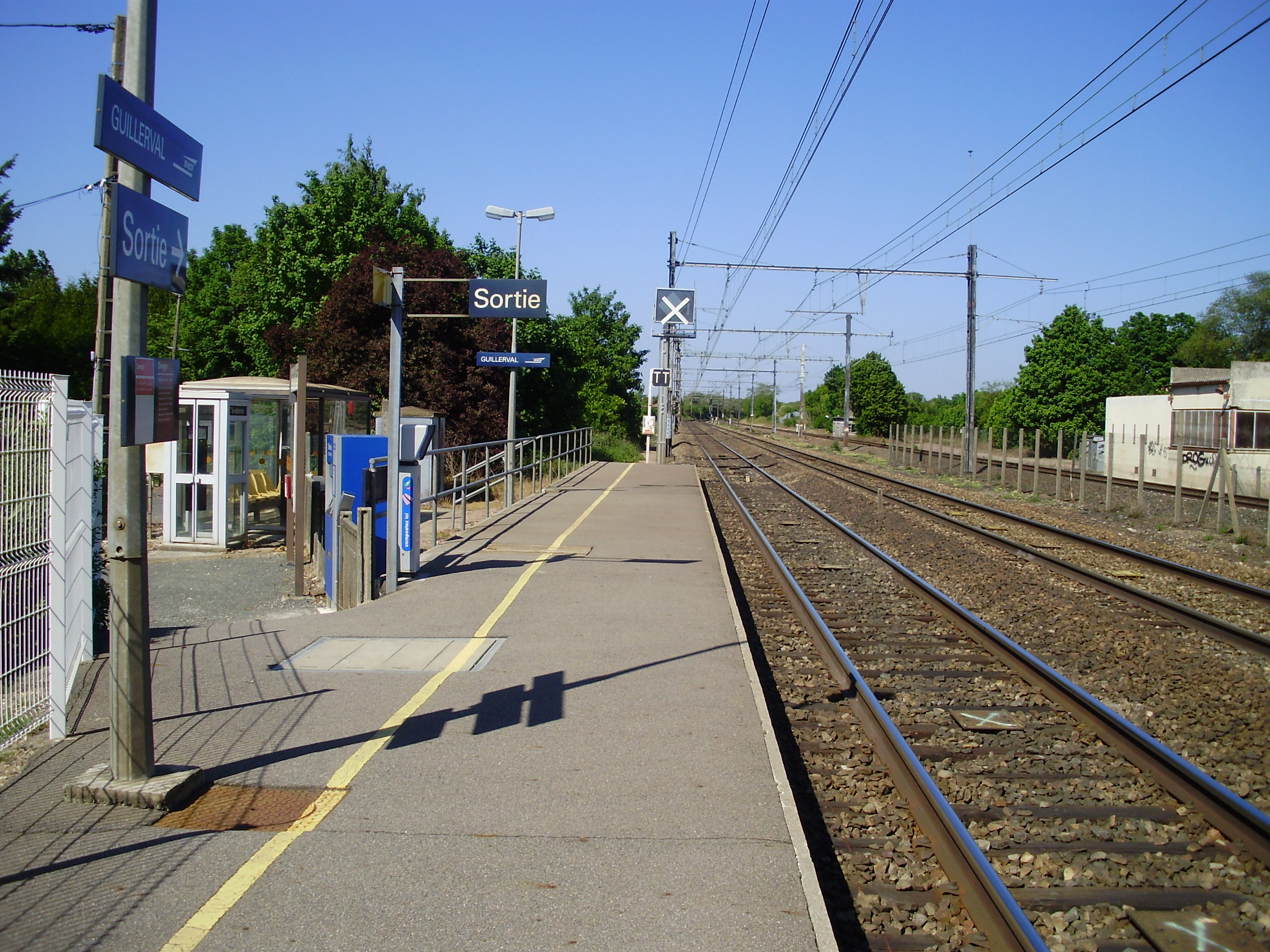 Guillerval station, Essonne, France (head of platform to Paris)